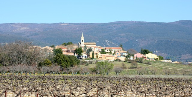 the village of Villars, France